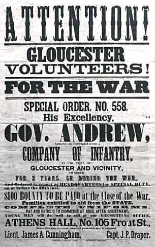 War recruitment poster: "Attention! Gloucester volunteers! for the war. Special Order No. 558 ... Gov. Andrew ... Company of Infantry in Gloucester, MA and the surrounding vicinity to serve for 3 years, or during the war.... $100 bounty to be paid at the close of the war. Families entitled to aid from the state. Complete uniforms. ... Recruiting Office, Athens Hall, No. 105 Front St. ... Lieut. James A. Cunningham, Capt. J.P. Draper." Printed by "Gloucester Telegraph" Press